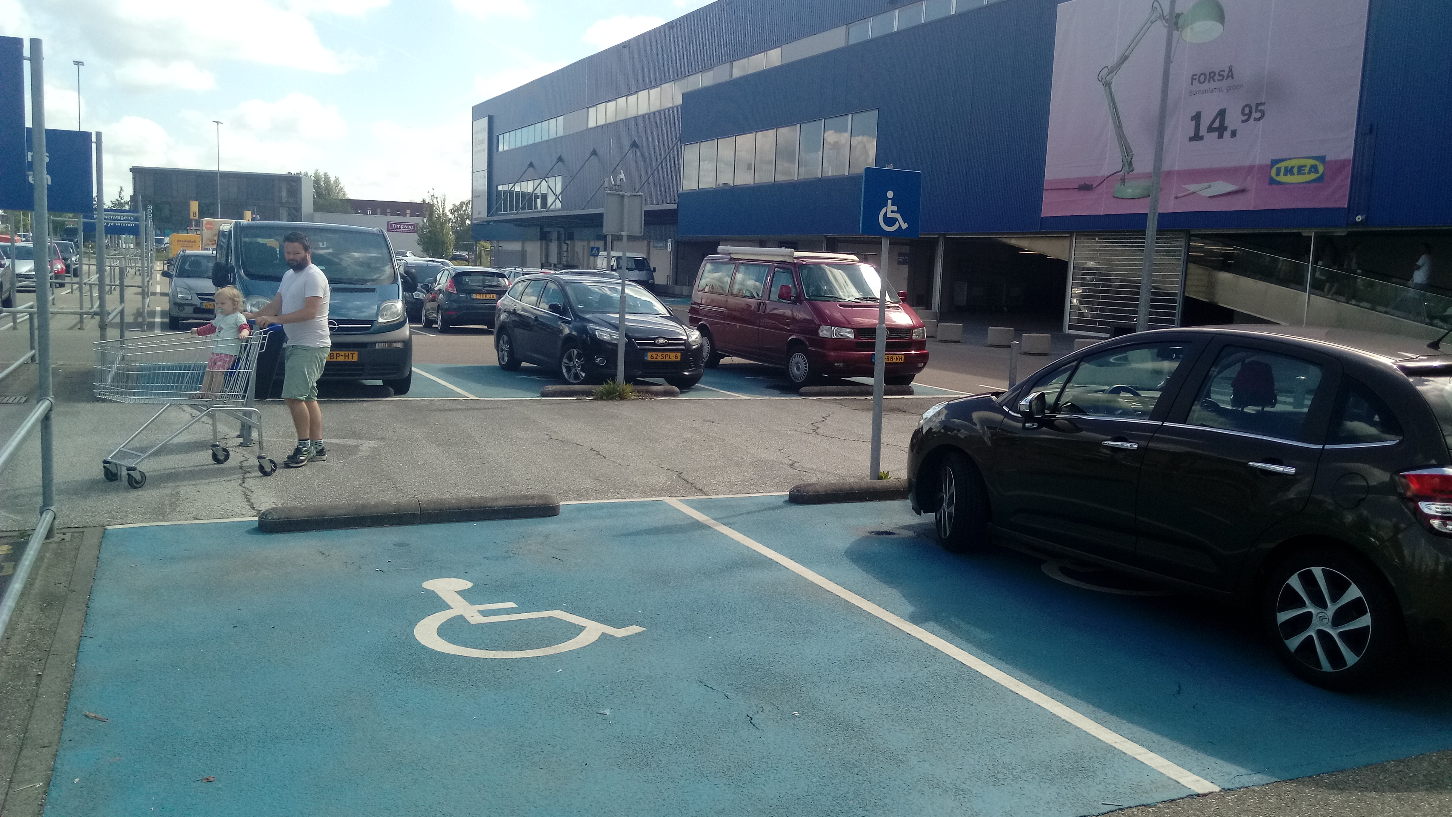 A local parking sign for Handicapped people at the local IKEA store in the city of Groningen.